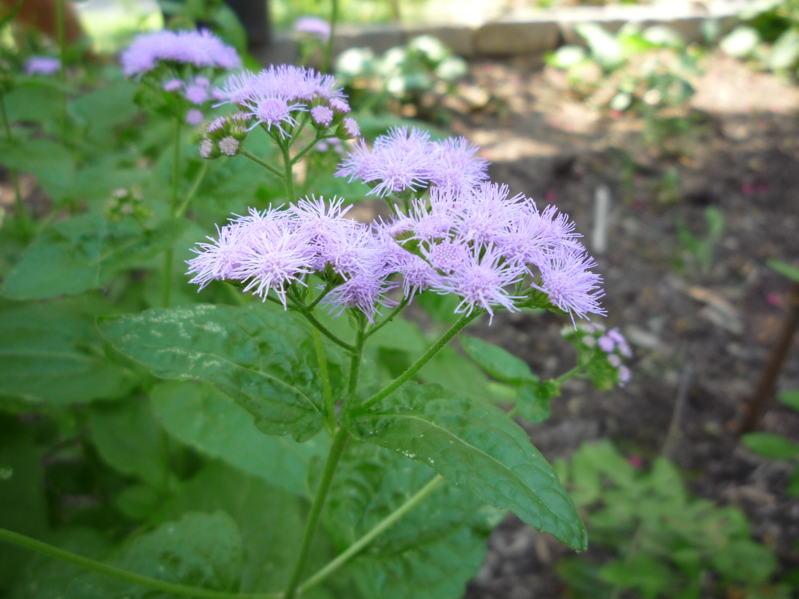 Flowers of Conoclinium coelestinum in cultivation